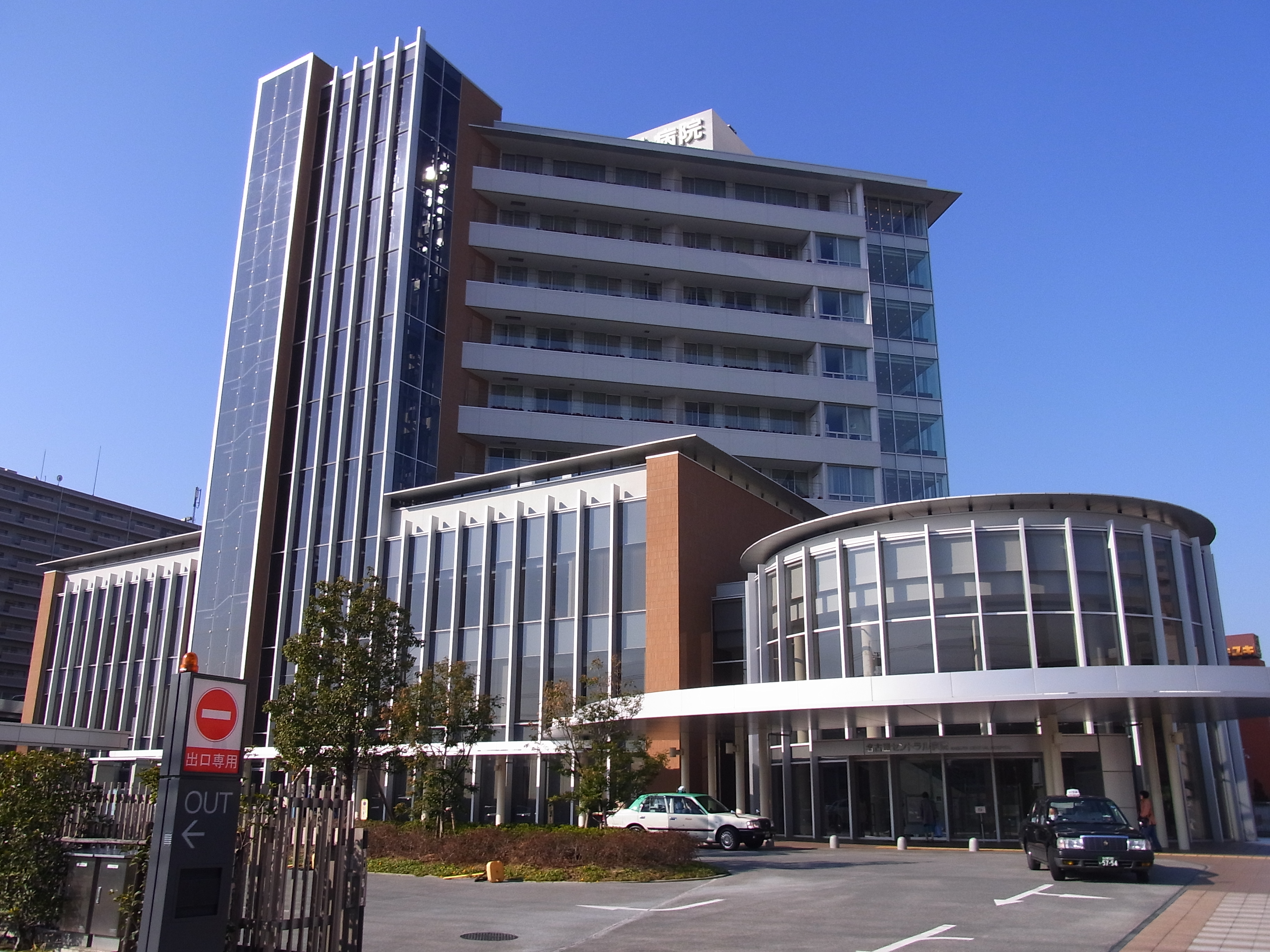 Nagoya Central Hospital in Nakamura-ku Ward, Nagoya City.